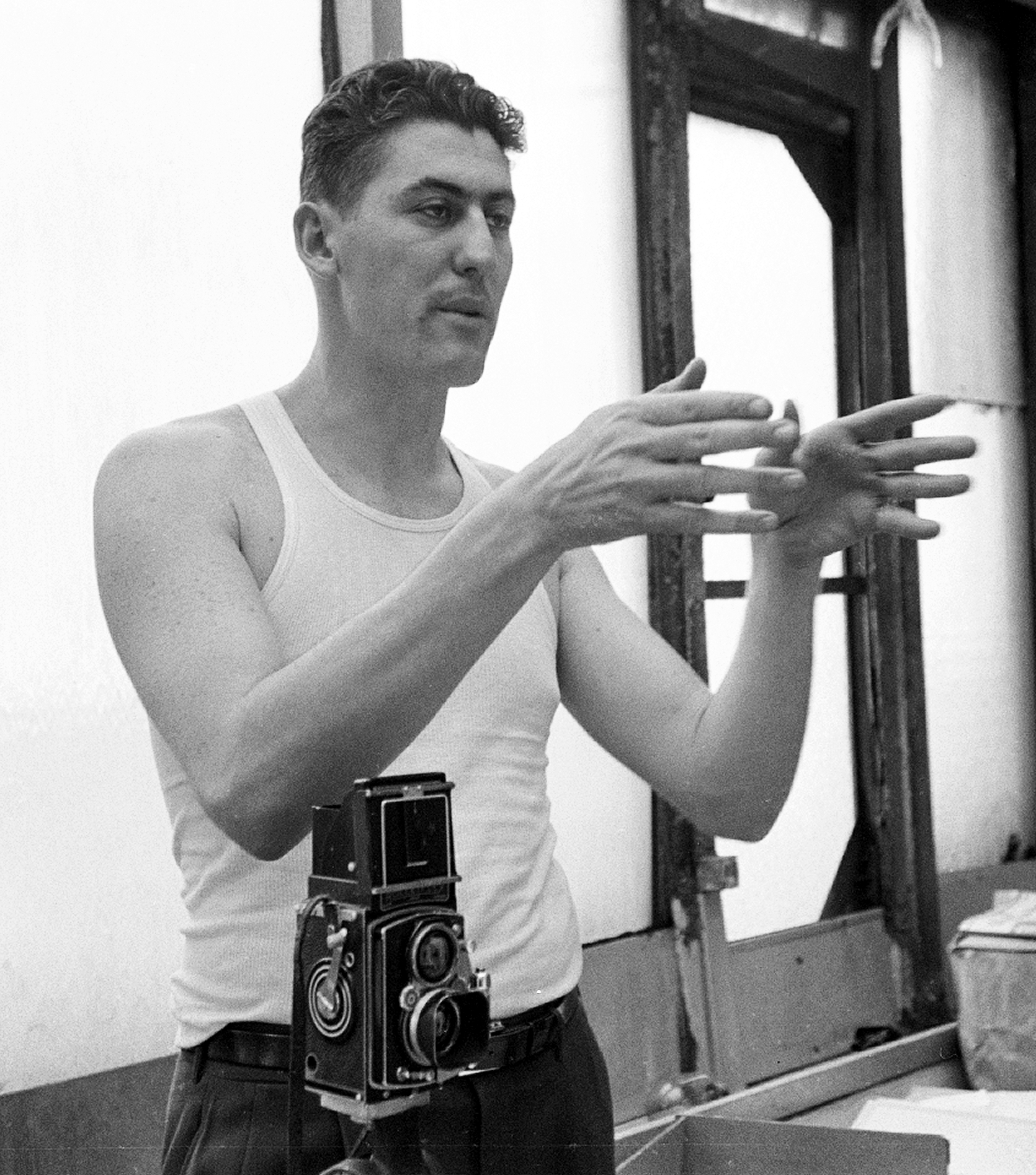 Photographer Alfred Gescheidt in his studio, 1952